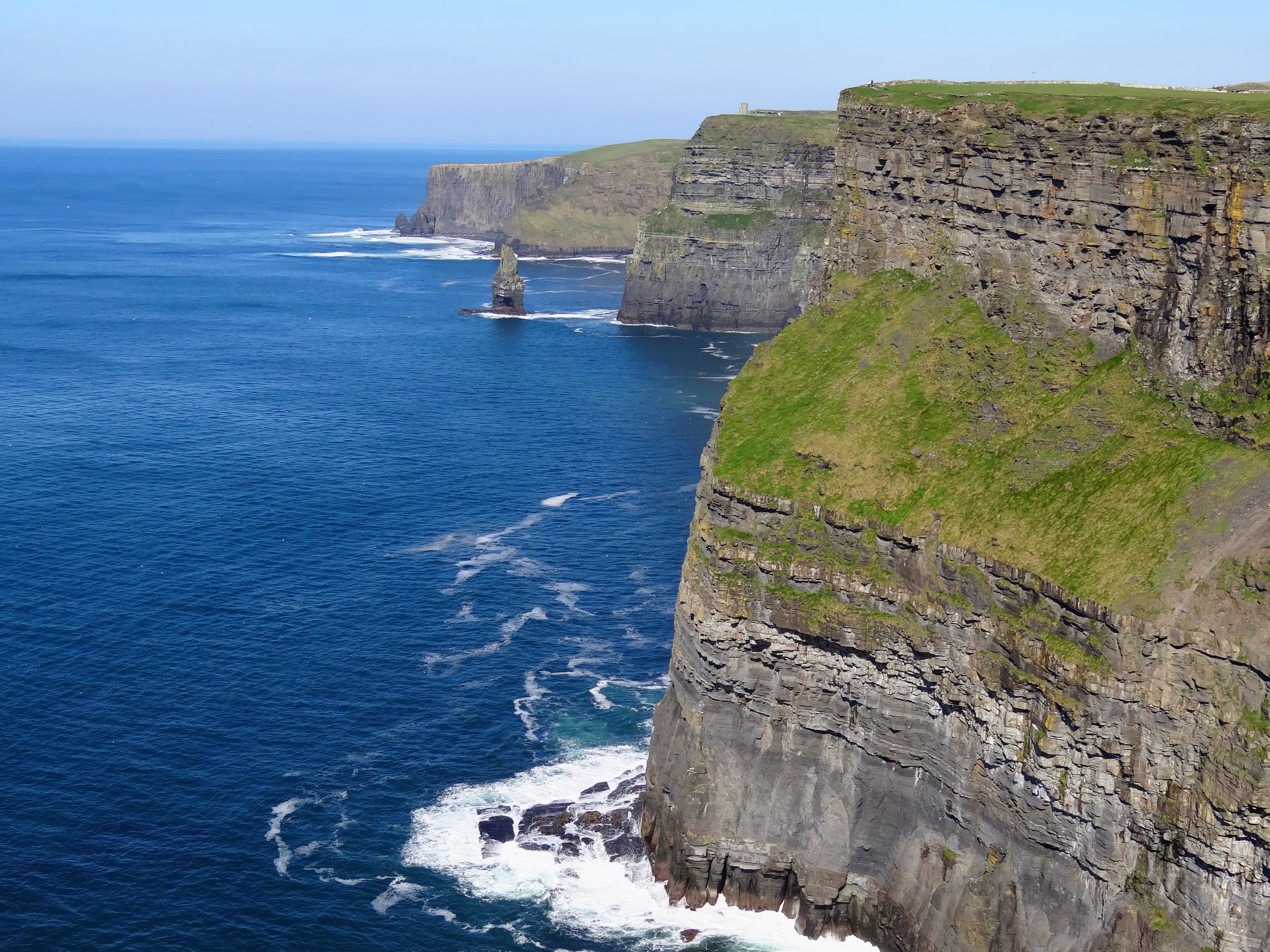 Looking north along the cliffs towards O'Brien's Tower.